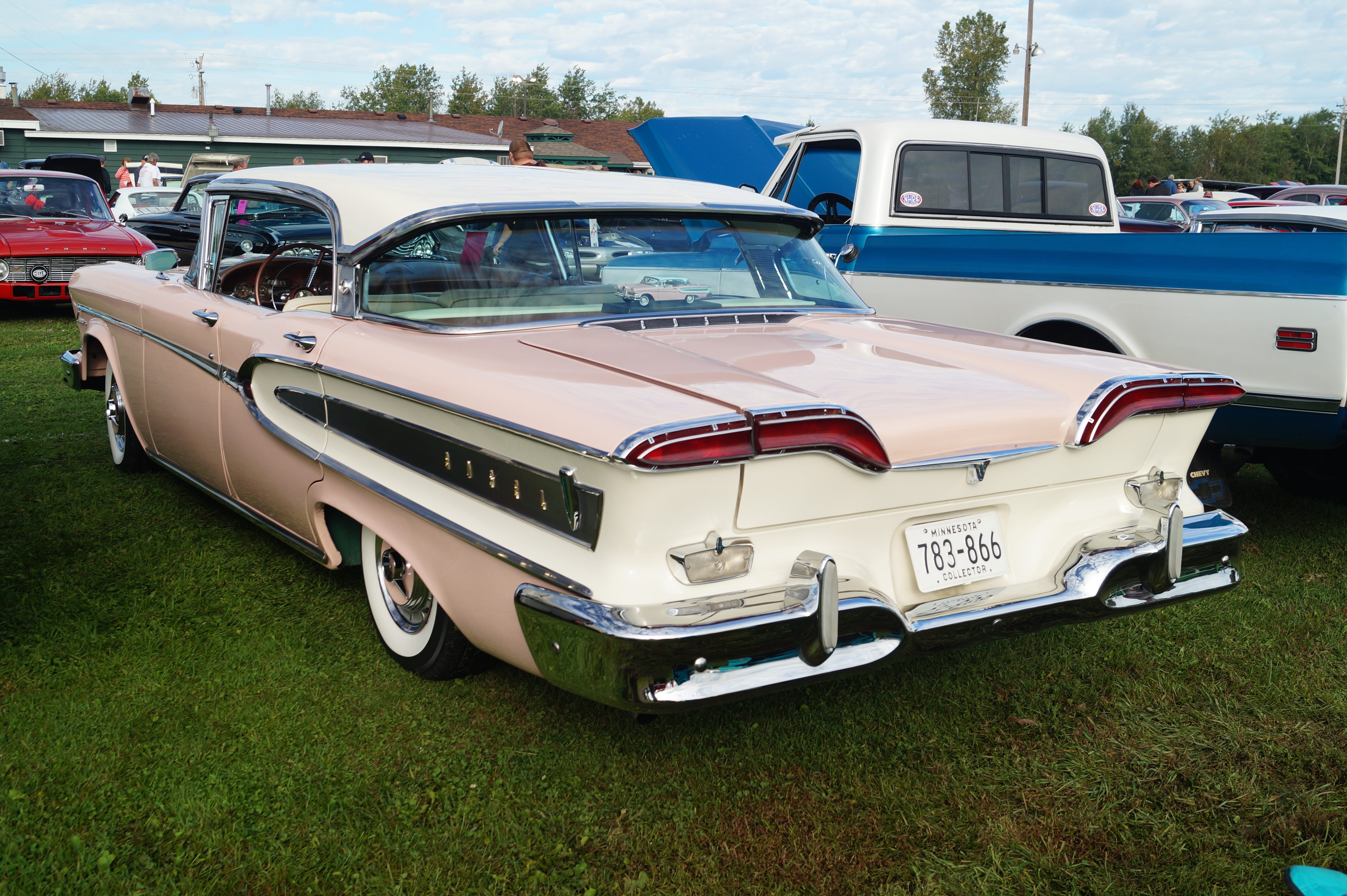 28th Annual Pig Roast & Car Show September 20, 2015 Northern Lights Car Club Blacksmith Lounge Hugo, Minnesota Click here for more car pictures at my Flickr site.